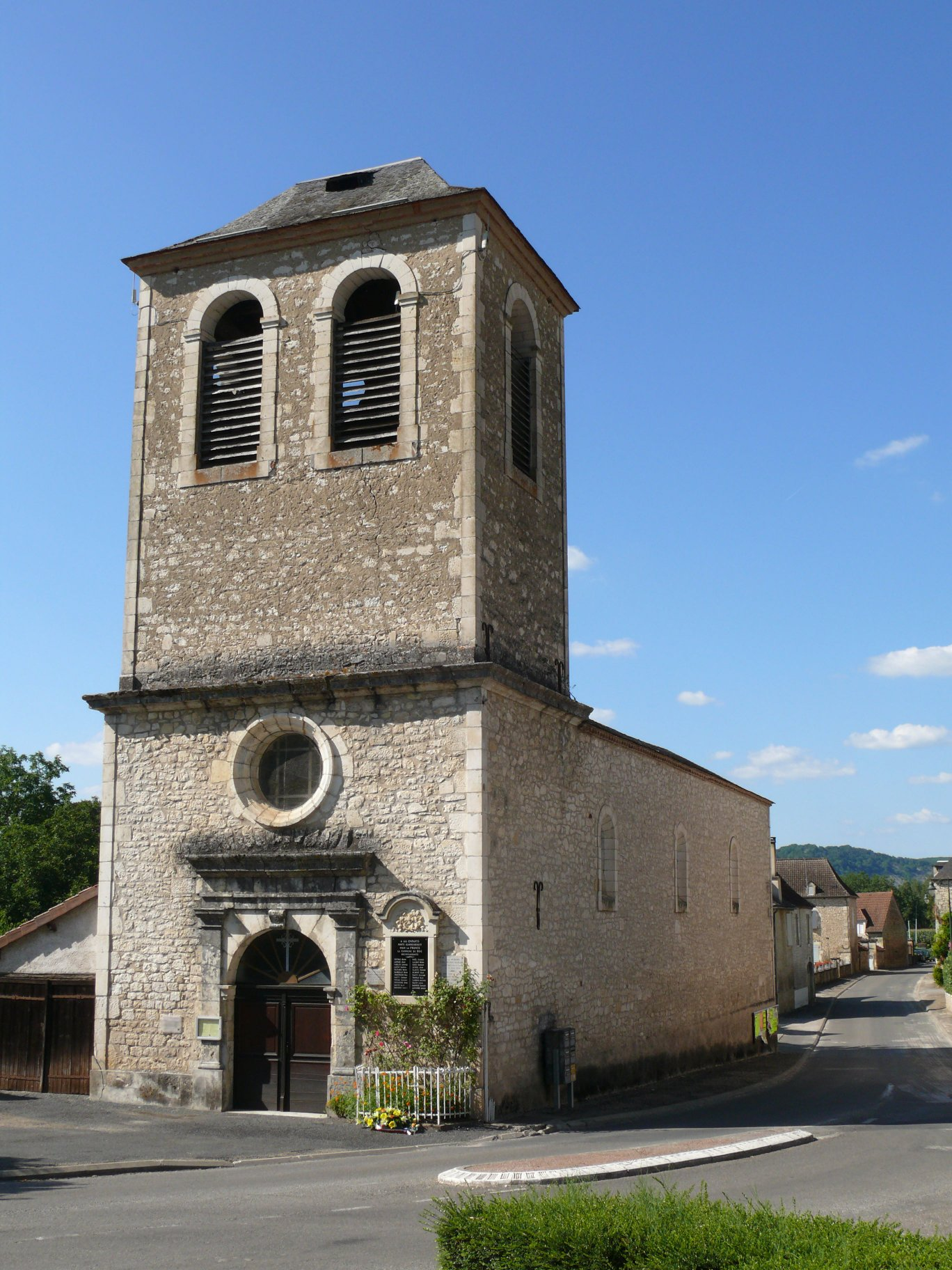 Saint-Roc's church of Le Roc (Lot, Midi-Pyrénées, France).